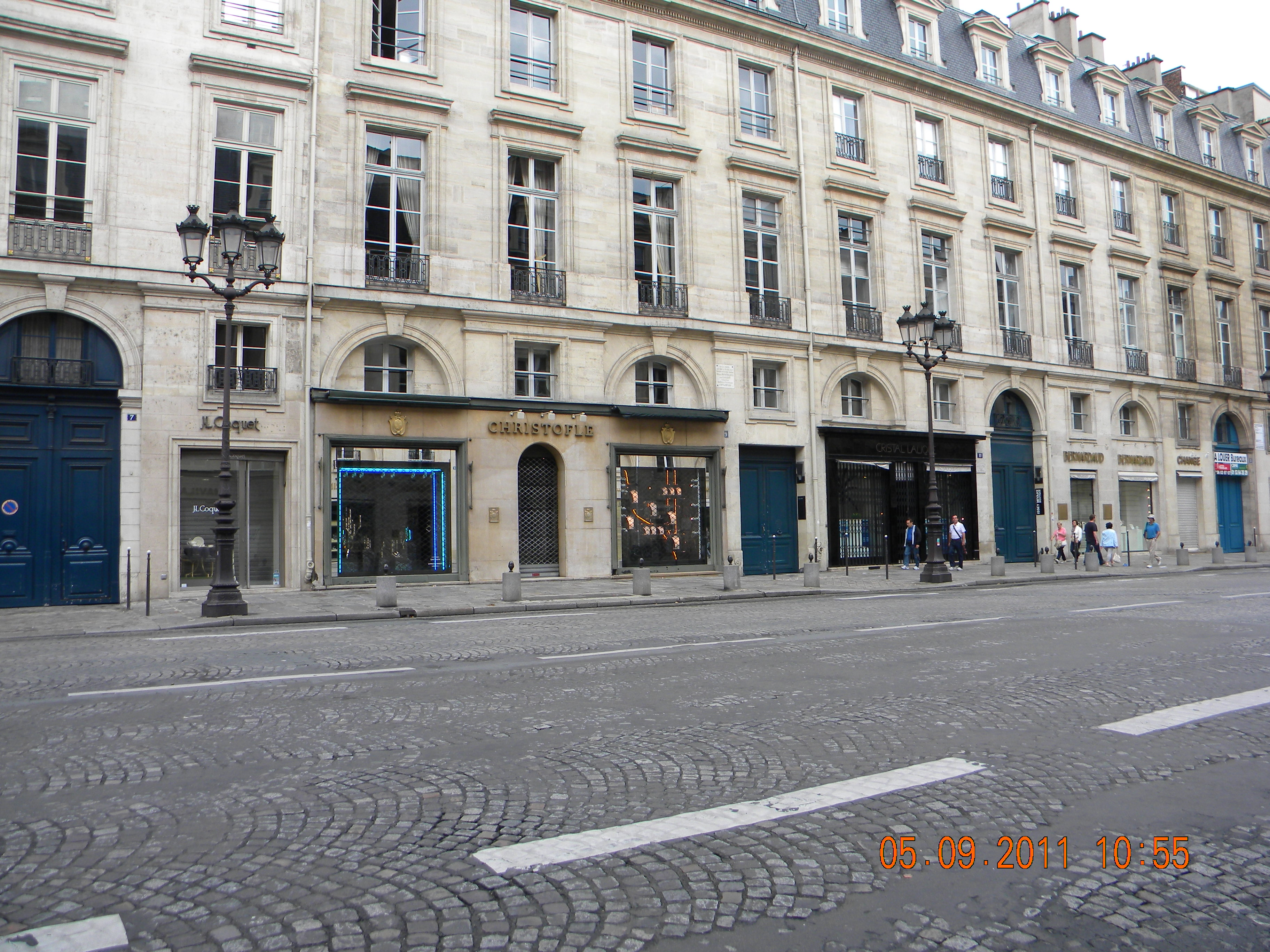 Rue Royale, Cristofle, Paris